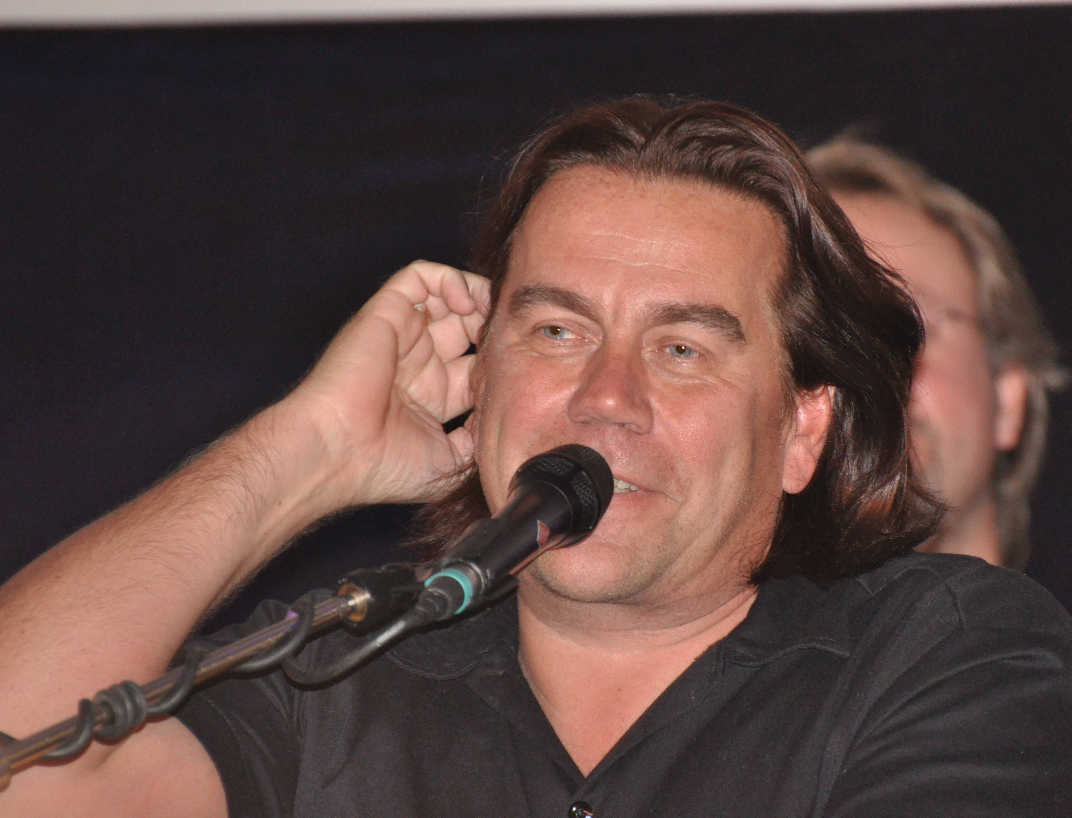 Finnish musician Mikko Kuustonen at a gig wih Hoedown in Turku, 2010.